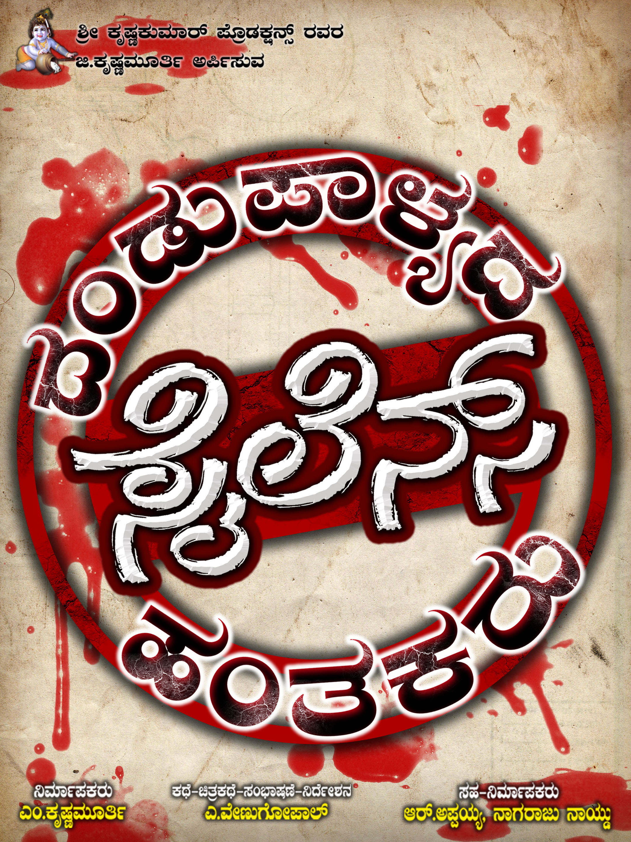 Kannada Movie